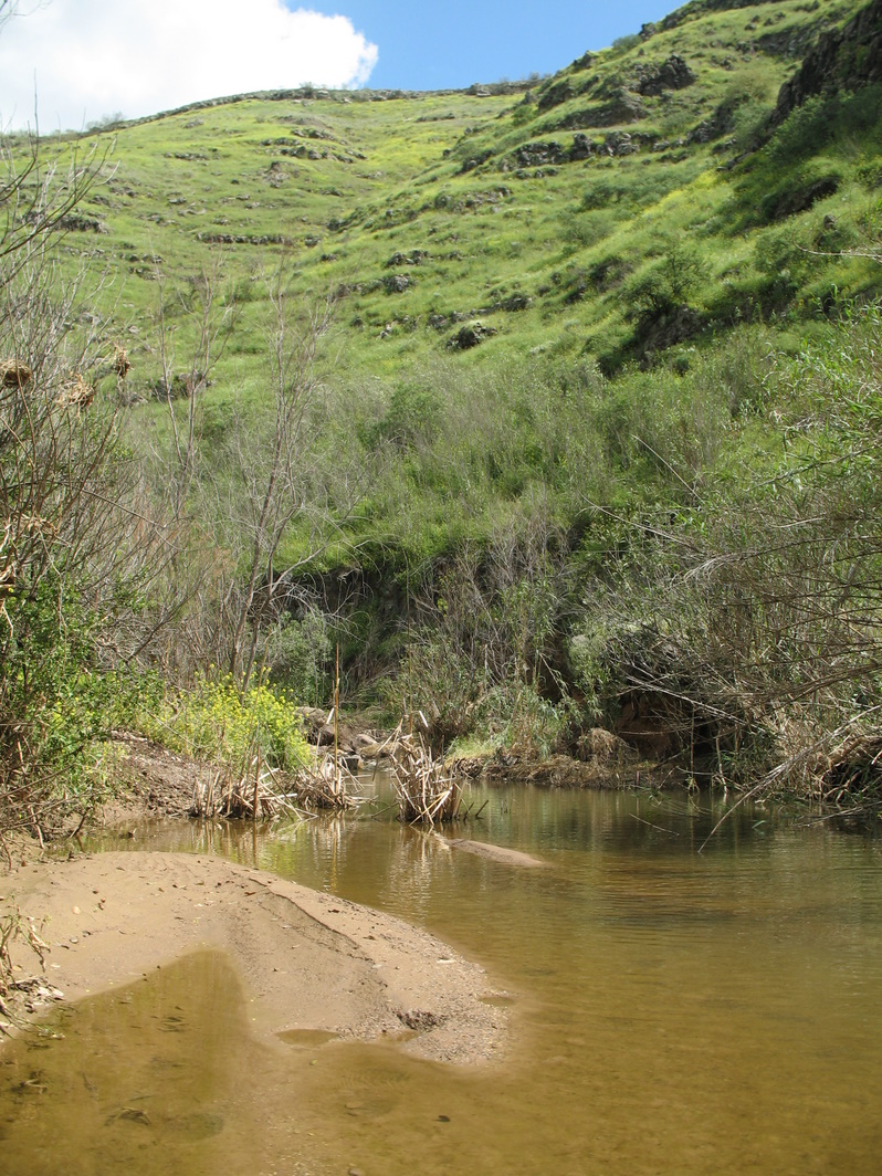 Tavor stream (Nahal Tavor), Lower Galilee, Israel